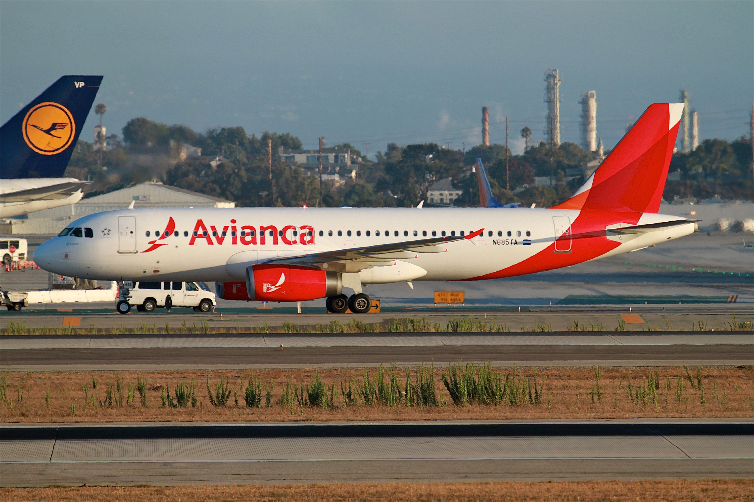 Avianca Airlines (TACA) A320